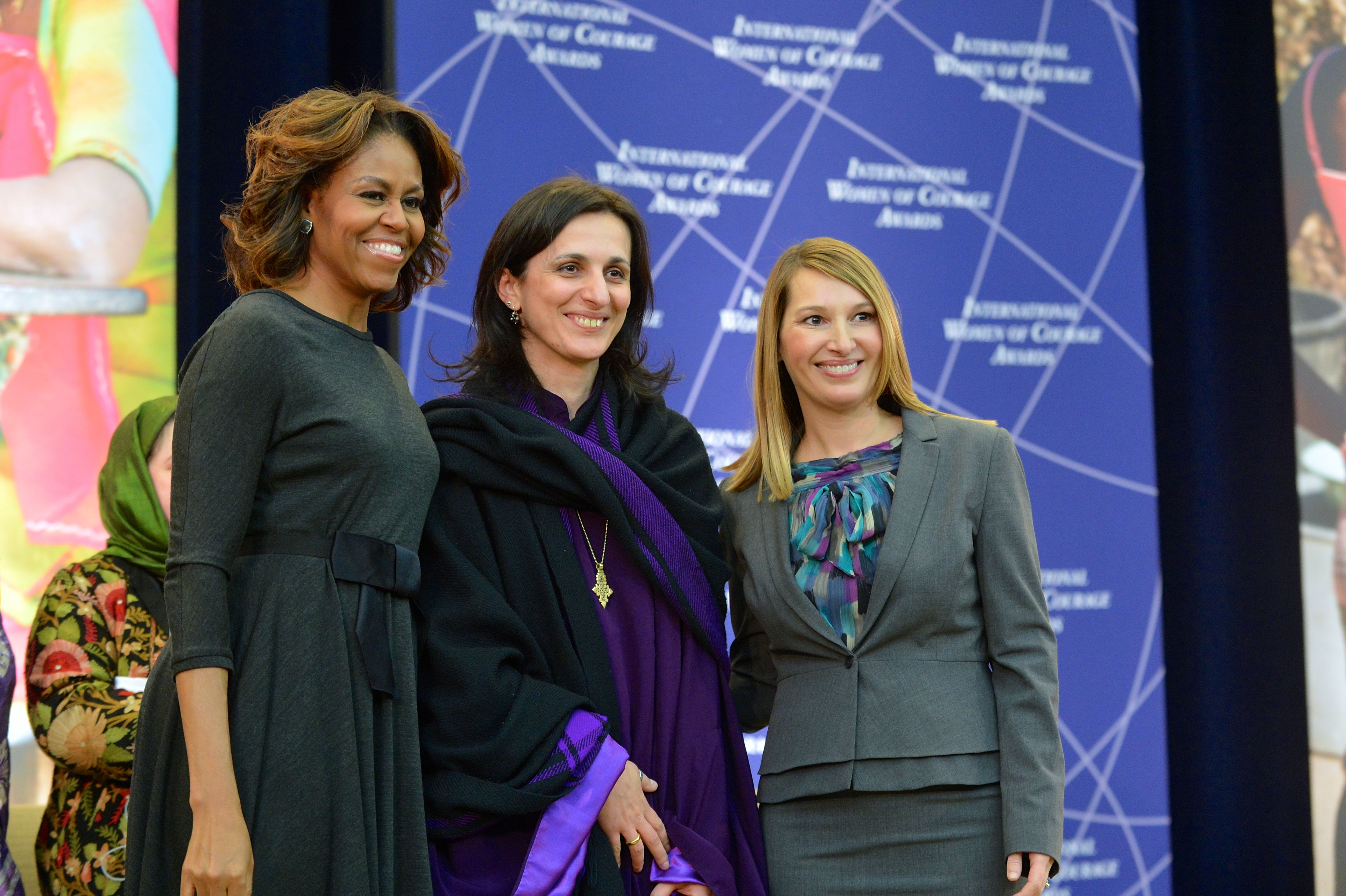 First Lady Michelle Obama and Deputy Secretary Heather Higginbottom pose for a photo with 2014 International Women of Courage Awardee Rusudan Gotsiridze, Bishop of the Evangelical Baptist Church of Georgia, at the 2014 Secretary of State’s International Women of Courage Award Ceremony at the U.S. Department of State in Washington, D.C., on March 4, 2014. [State Department photo/ Public Domain]